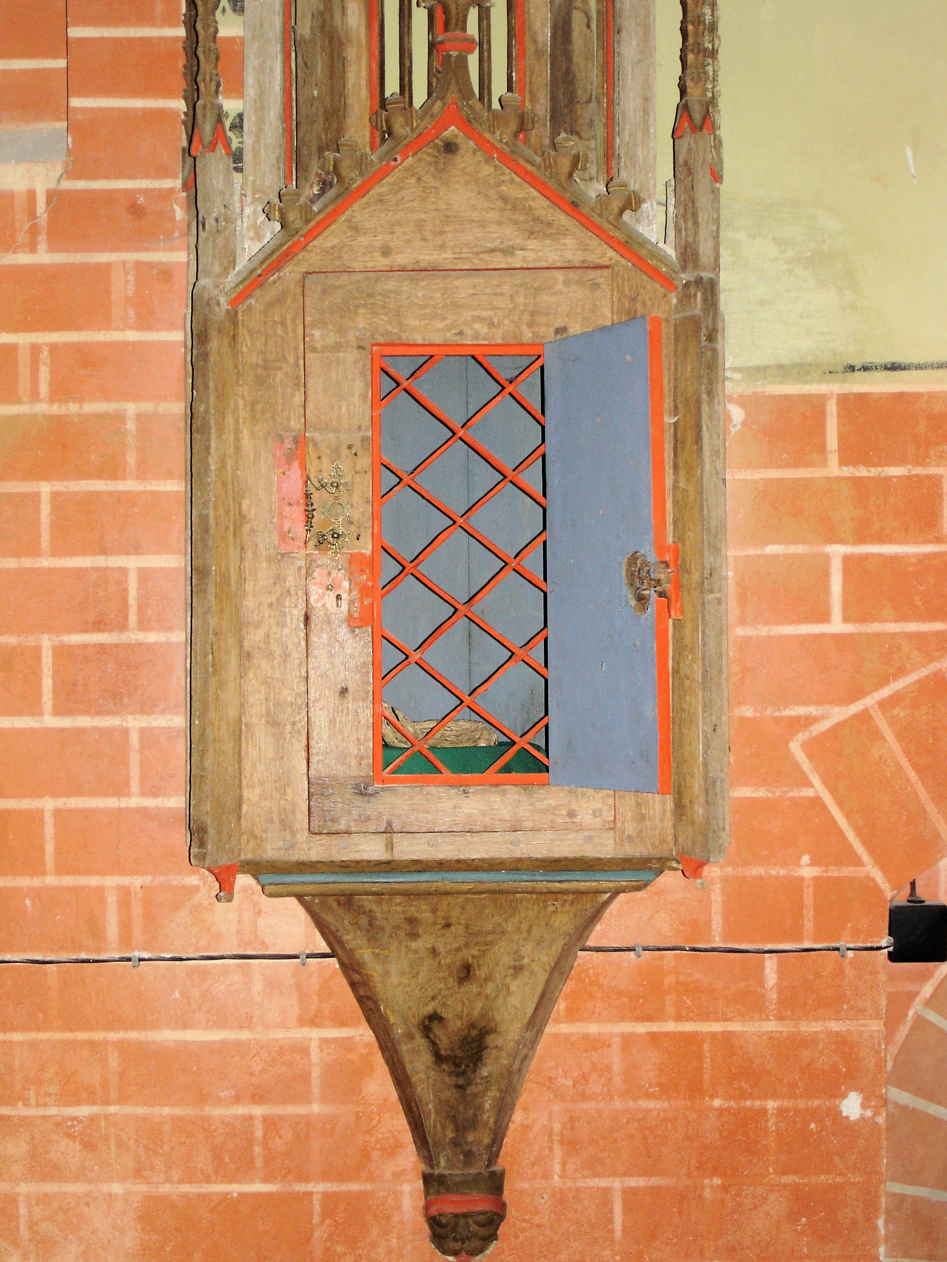 Church in Petschow, Mecklenburg, Germany